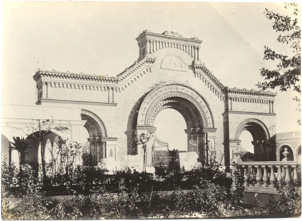 The northern main gate of the Colon Cemetery (Cementerio Cristóbal Colón) without the statues which were placed on the top in 1901.